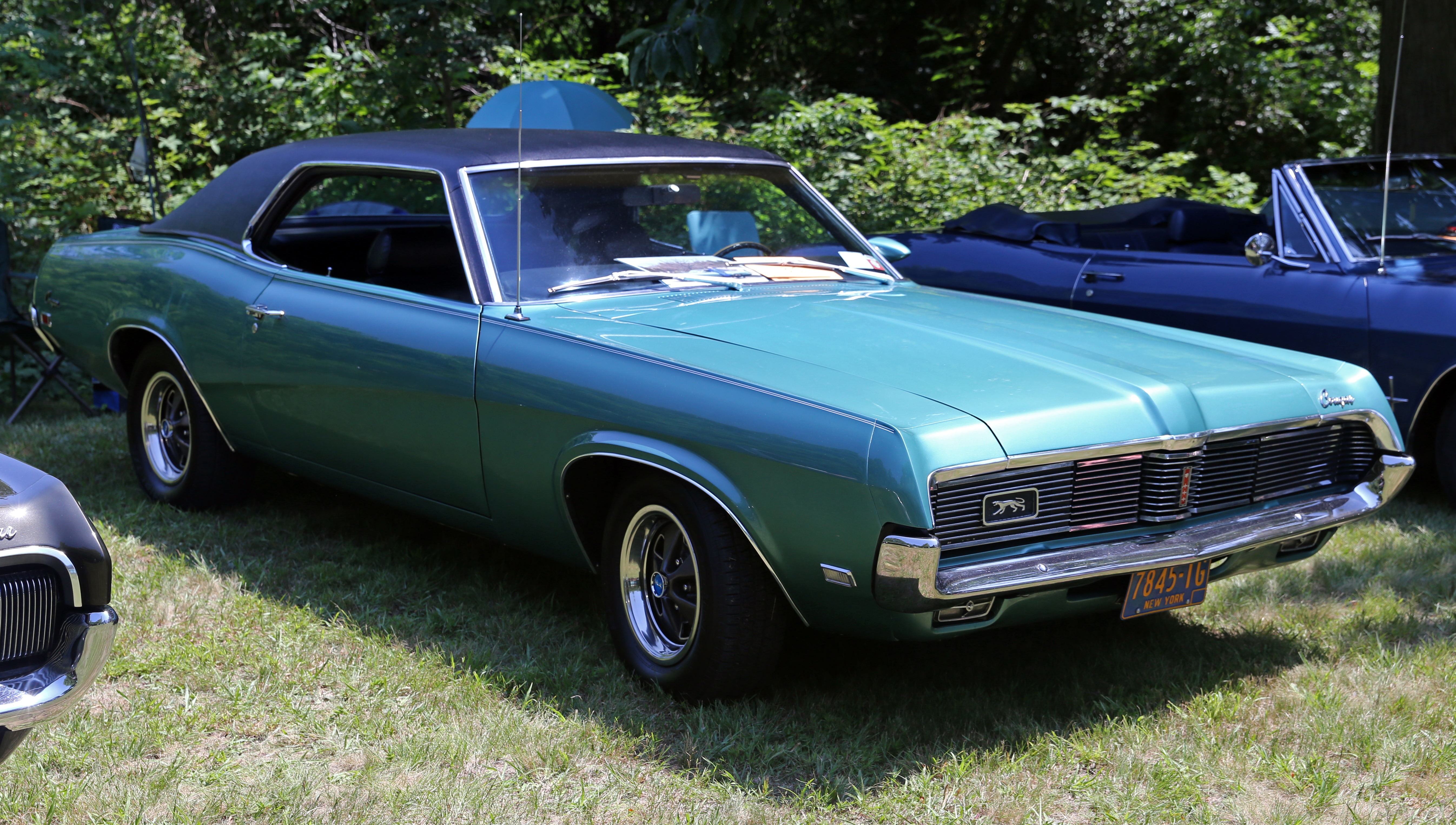 A 1969 Mercury Cougar Hardtop coupé, assembled in Dearborn, MI, and fitted with the standard 250hp 351ci-2V V8 engine with 9.5:1 compression.